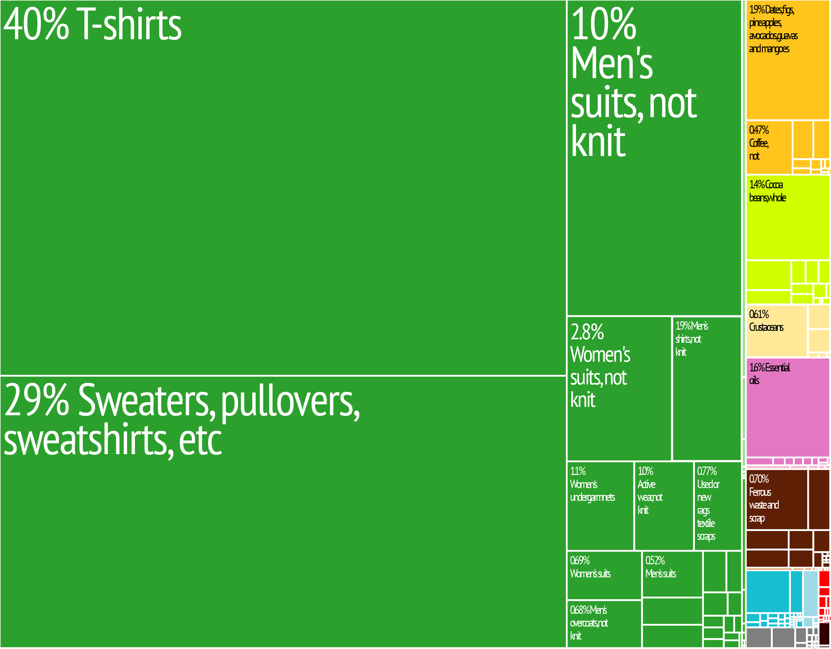 Haiti Export Treemap from MIT Harvard Economic Complexity Observatory